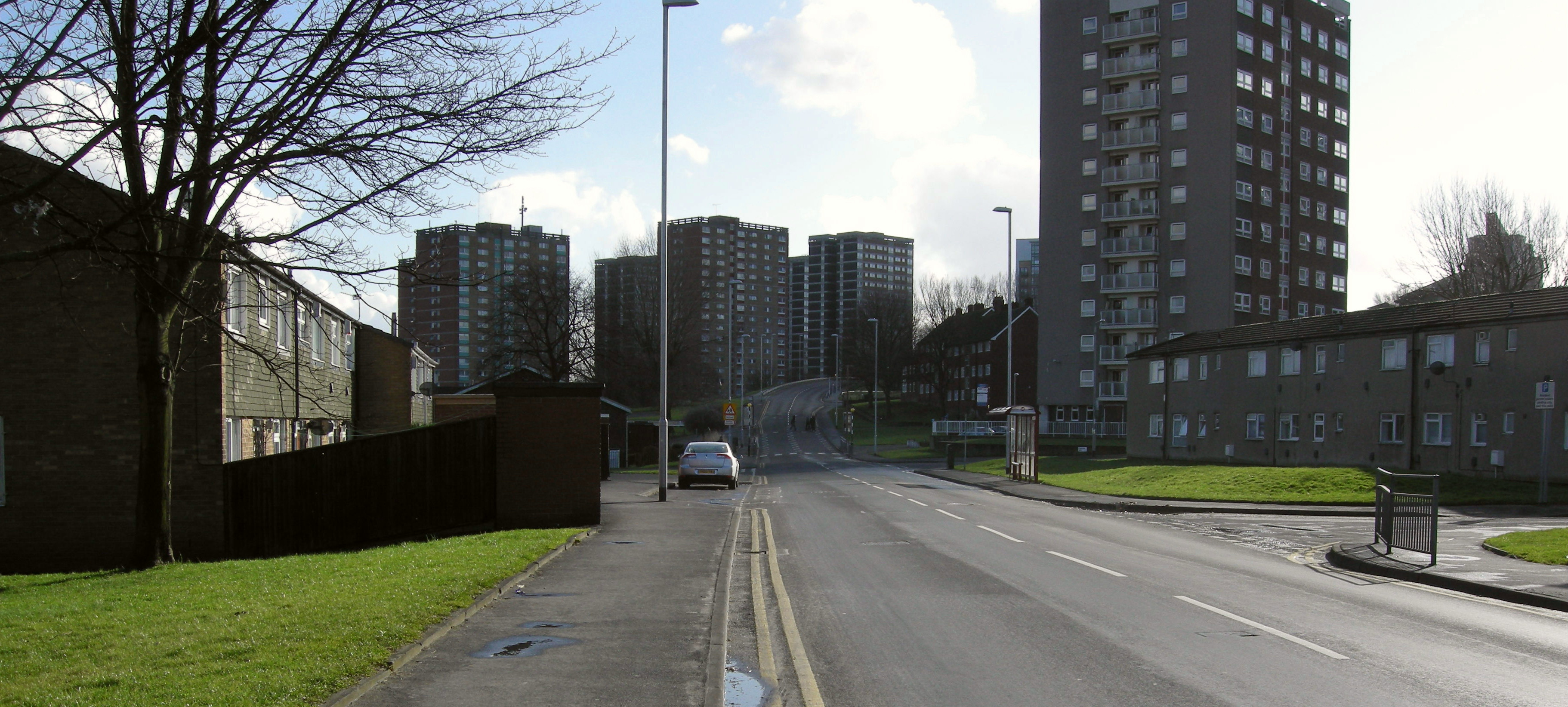 Looking south-west along Oatland Lane, Little London, Leeds, West Yorkshire, England. This is the site of Camp Road which was demolished in the slum clearances of the early 1960s. The author Will Scott (William Matthew Scott, 1993-1964) was born at 128 Camp Road, then a tobacconist's.